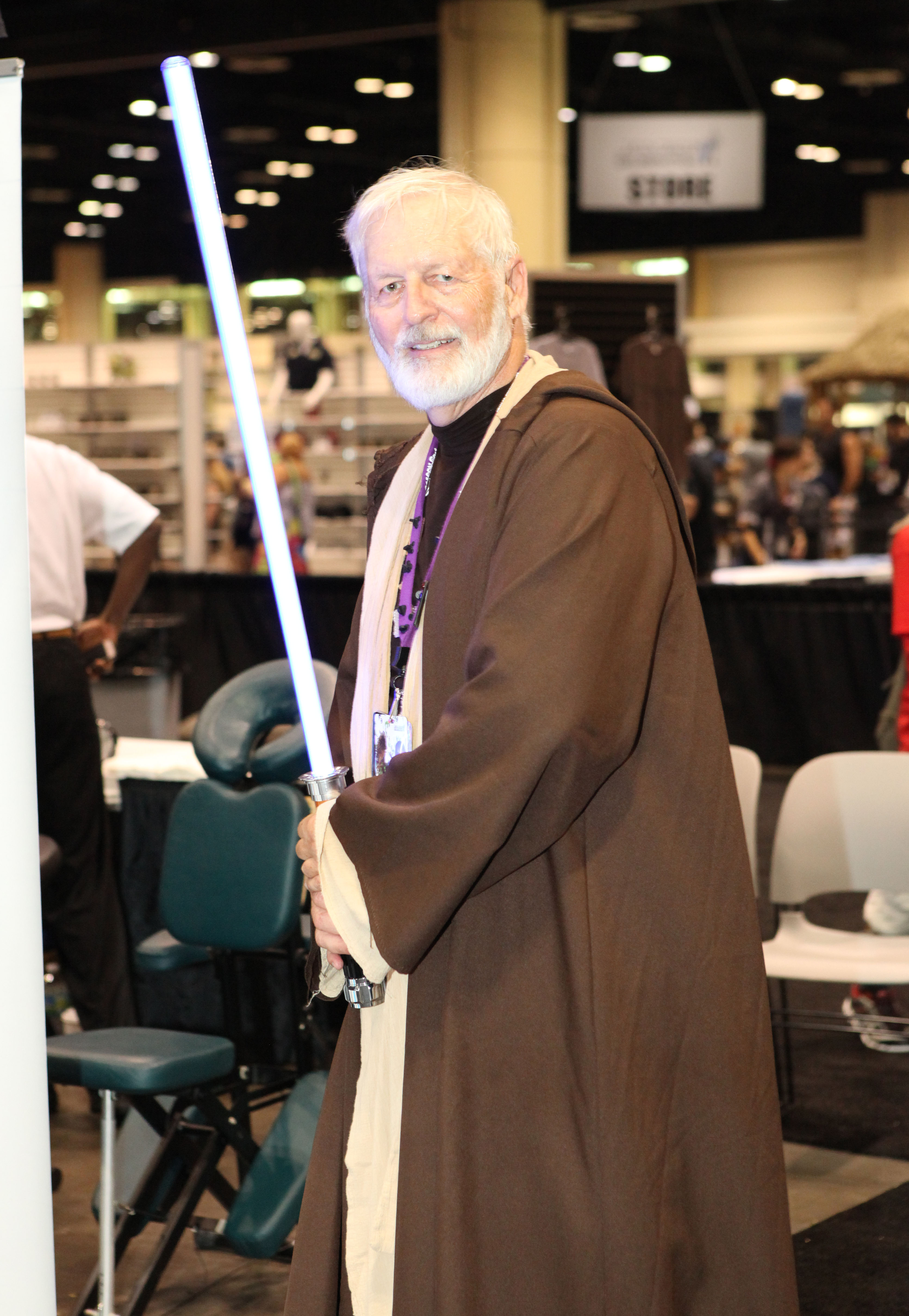 An incredible Obi-Wan Kenobi look-alike at Star Wars Celebration VI.